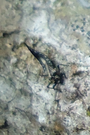 Tube-tail thrips, these were very numerous, feeding on fungi. Family Phlaeothripidae, probably Subfamily Idolothripinae.